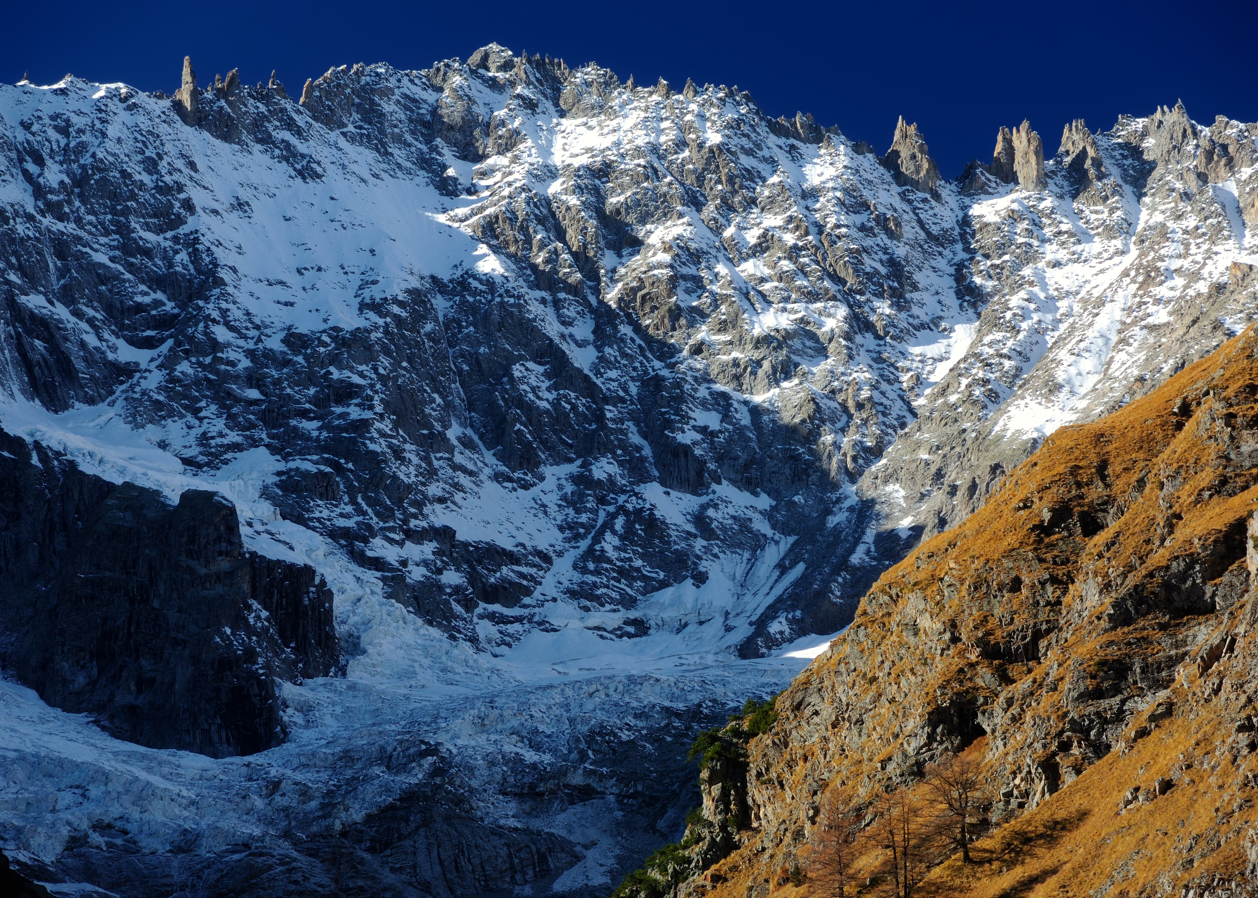 Pointe Kurz and Pointe Morin from La Fouly (Valais)